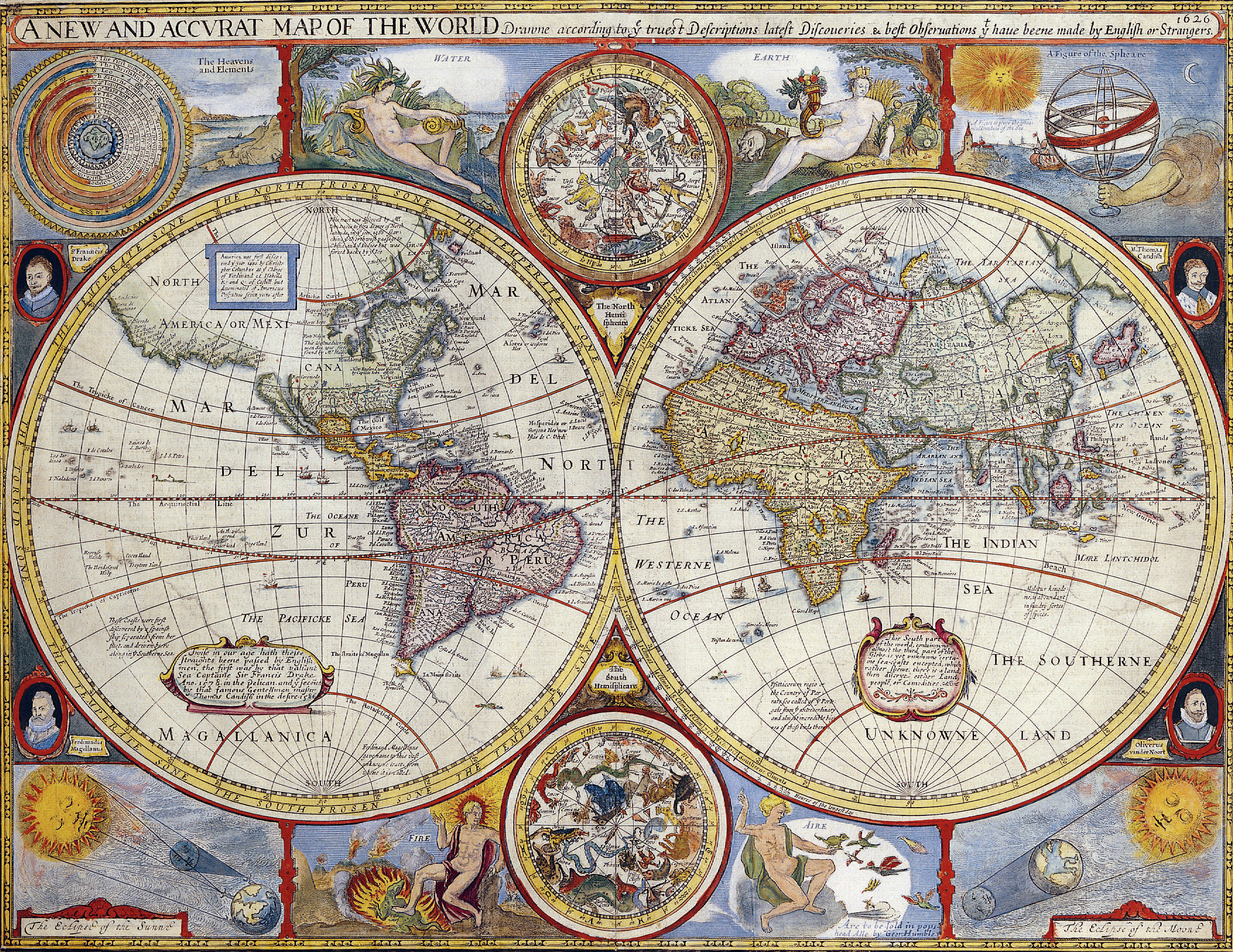 A New And Accvrat Map Of The World.